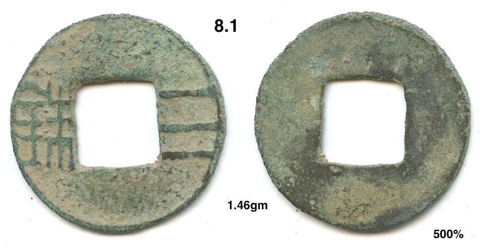 A San Zhu (三銖, sān zhū) cash coin produced by the (Western) Han Dynasty.